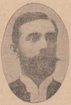 Pär Olov Petterssån, Swedish priest 1867-04-03--1929-01-07